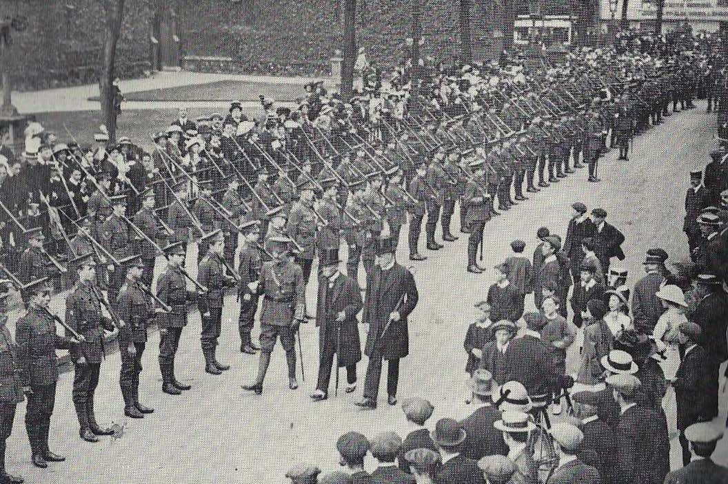 Inspection of the OTC of Bedford Modern School by Field Marshal Earl Roberts VC, 1914